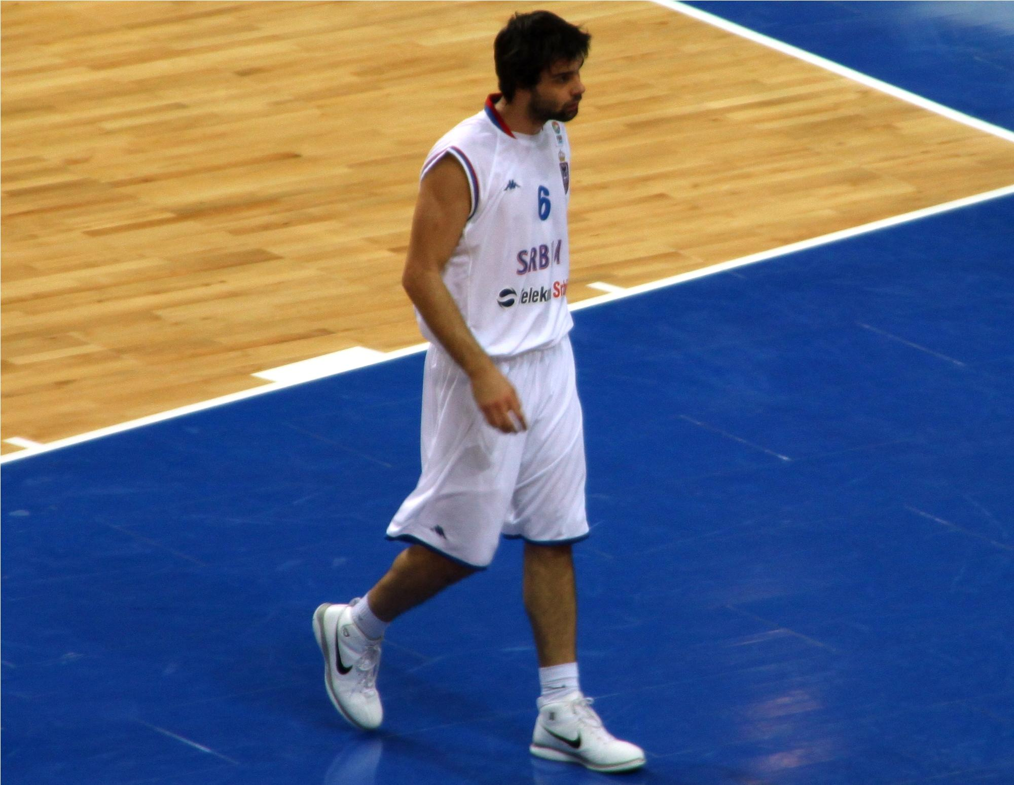 The Serbian player, Miloš Teodosić, was named to the All-Tournament Team of Eurovision 2009, Poland...